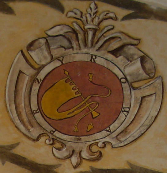 Przyrowa coat of arms in Baranow-Sandomierski castle. Detail of Image:Baranów Sandomierski - castle 03.JPG full resolution, by User:Piotrus and tagged with the same “self2.GFDL.cc-by-sa-2.5,2.0,1.0” license.